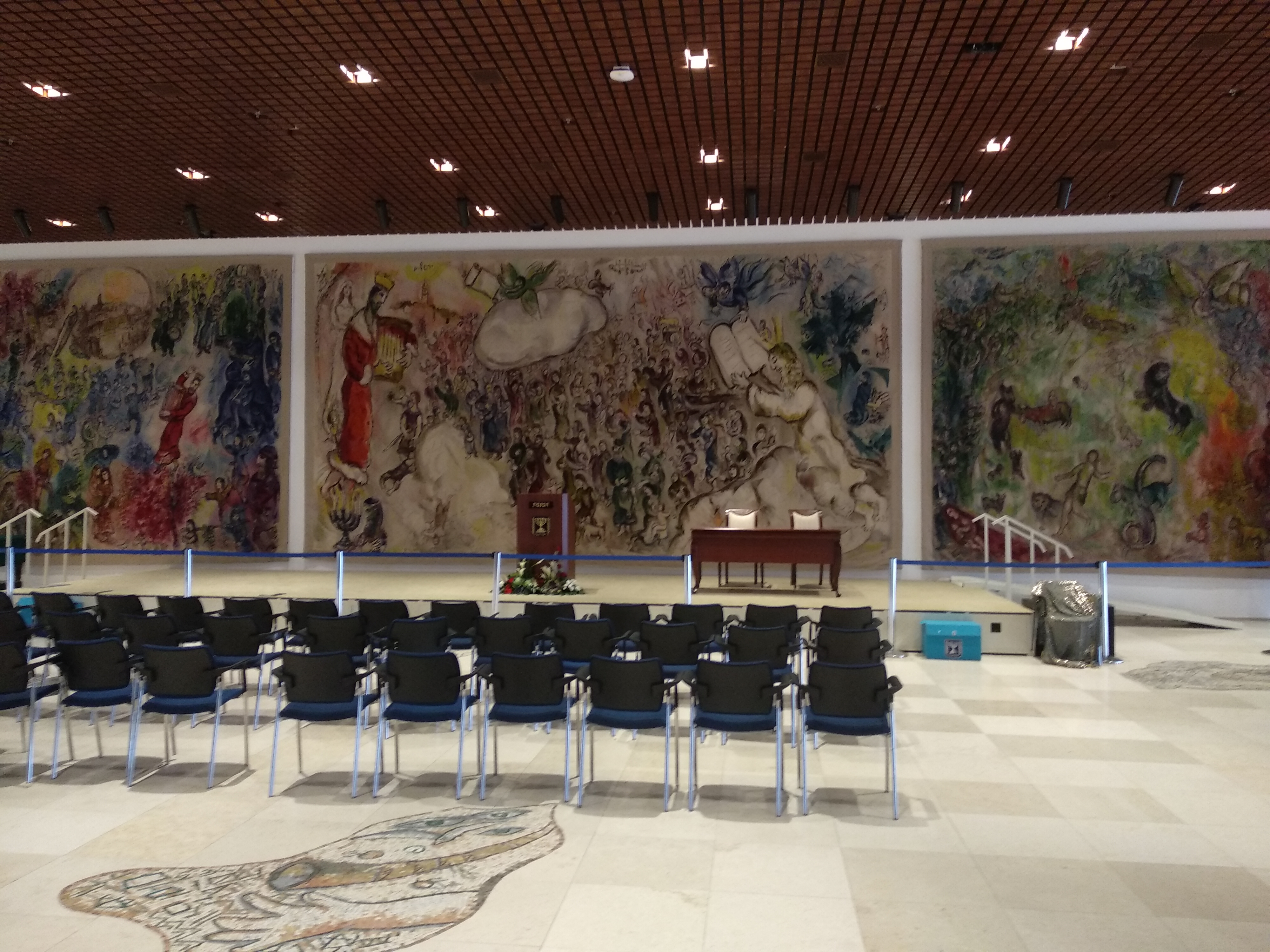 Marc Chagall Lounge in the Knesset